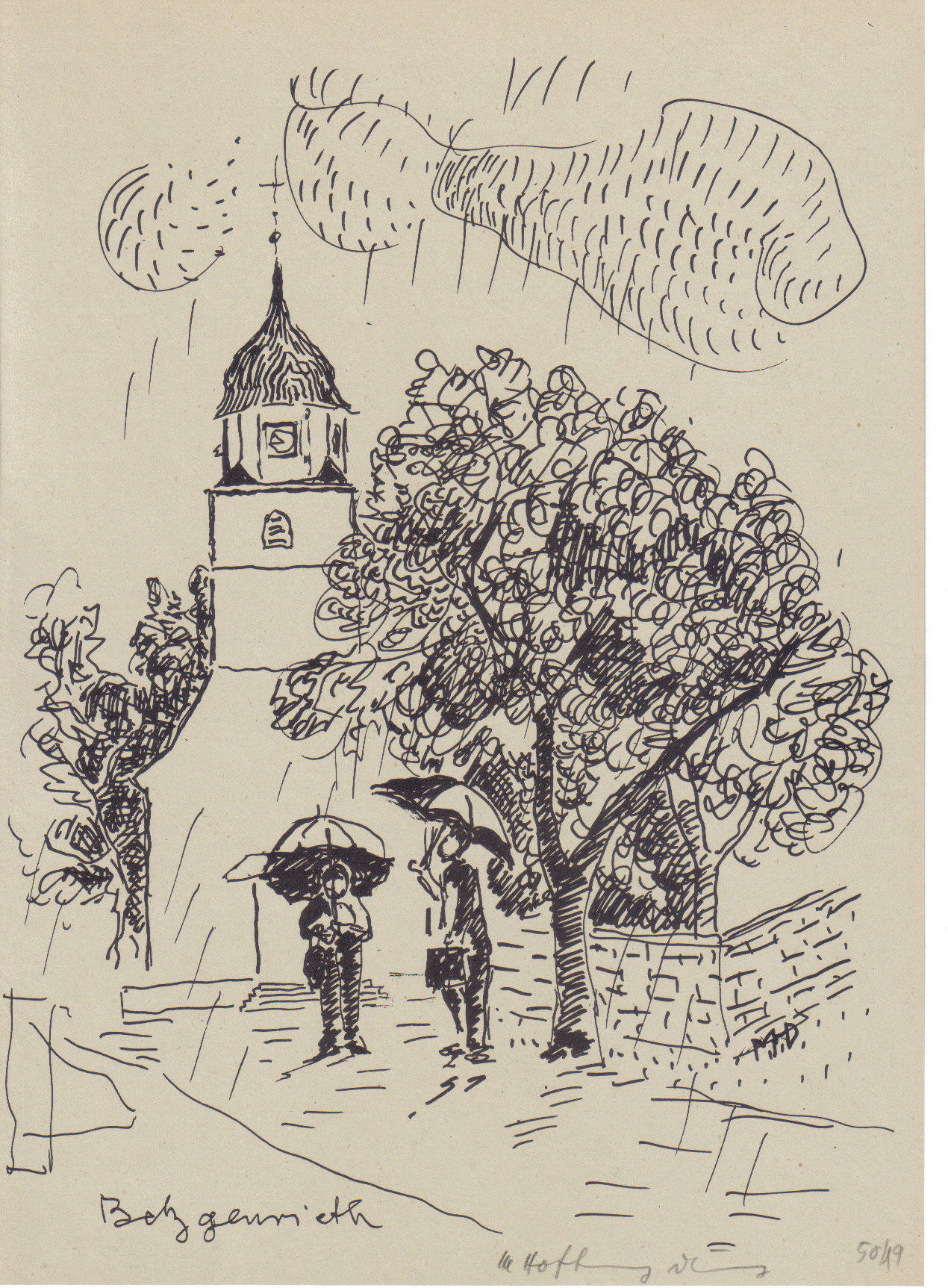 Bezgenriet, quarter of Göppingen, ink drawing, 20 x 30 cm